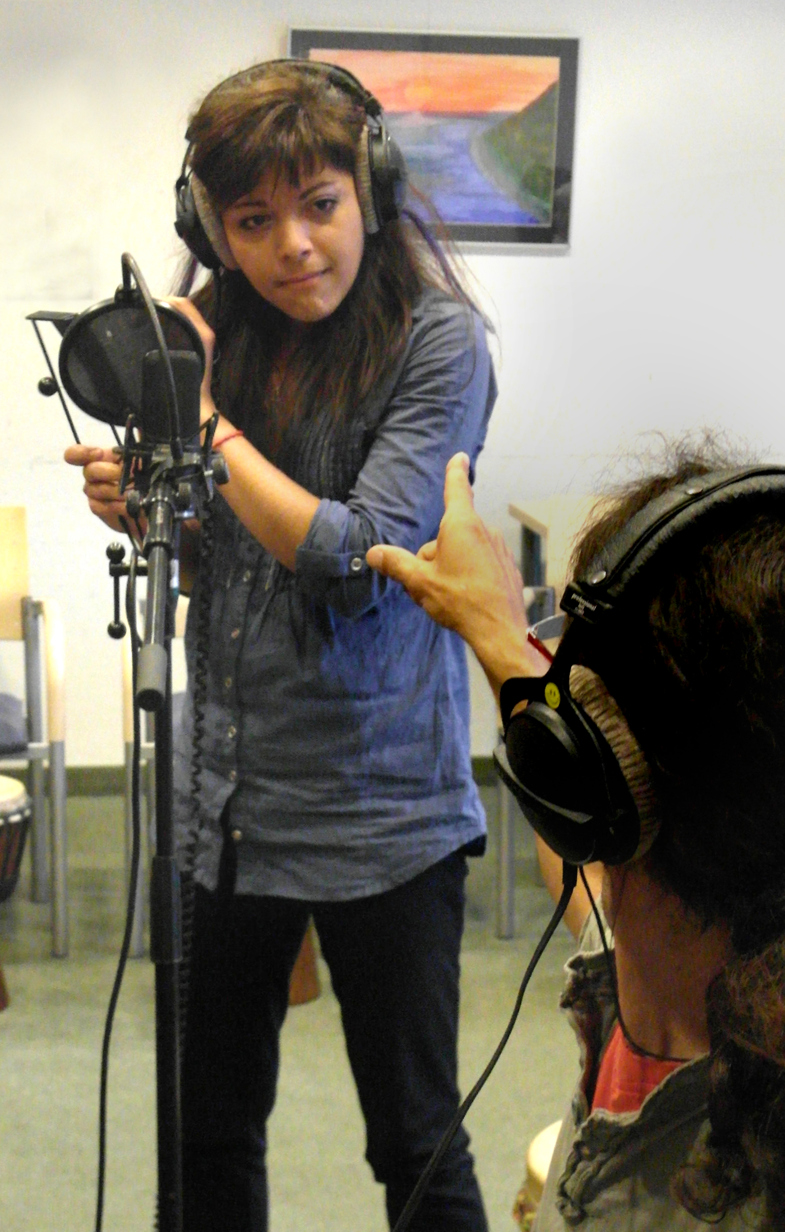 Mihaela Ursuleasa during some voice recording session, a while ago.